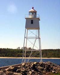 Grand Marais Harbor of Refuge Inner Range Light: Grand Marais MI